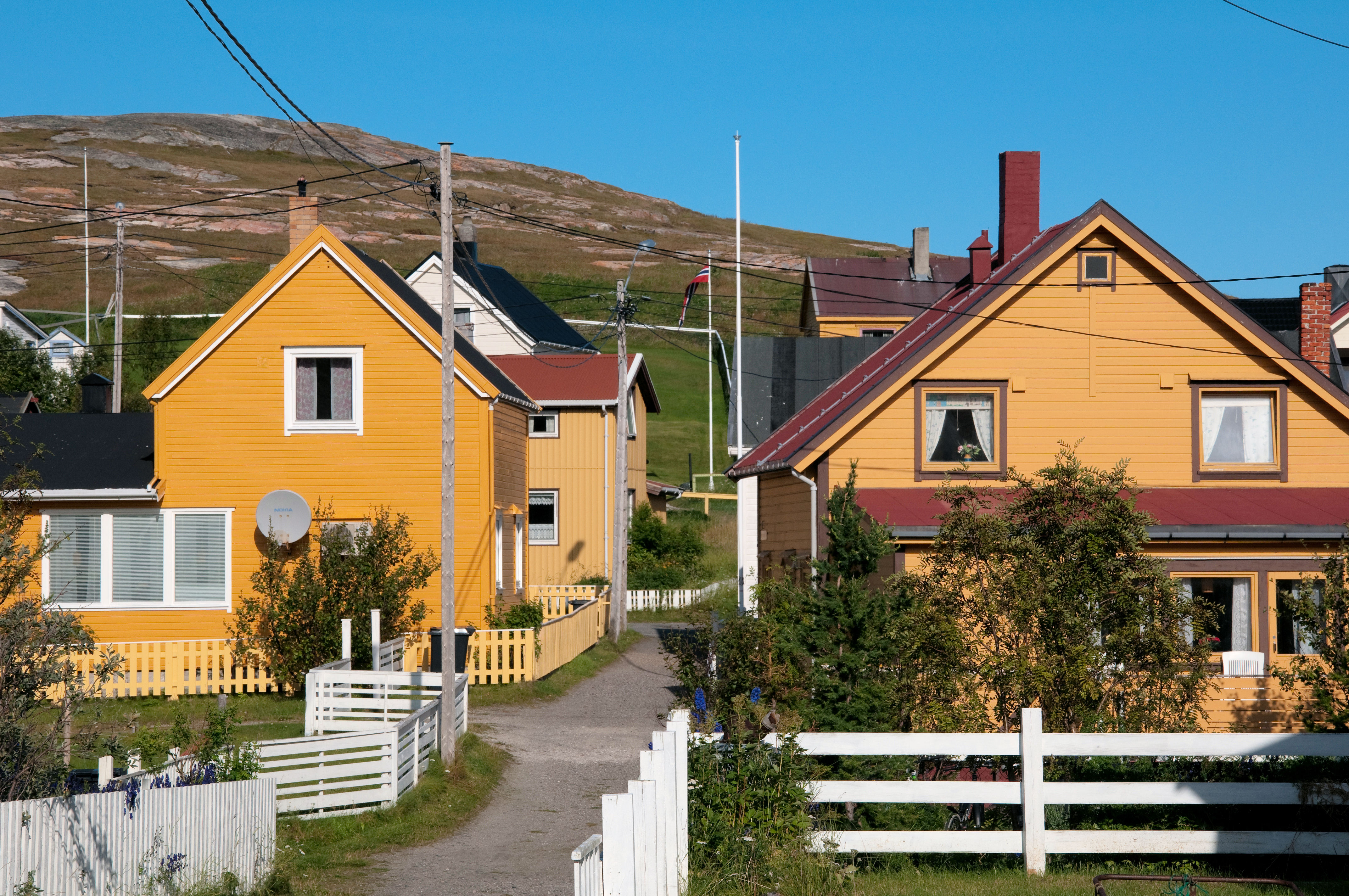 Bugøynes in Norway